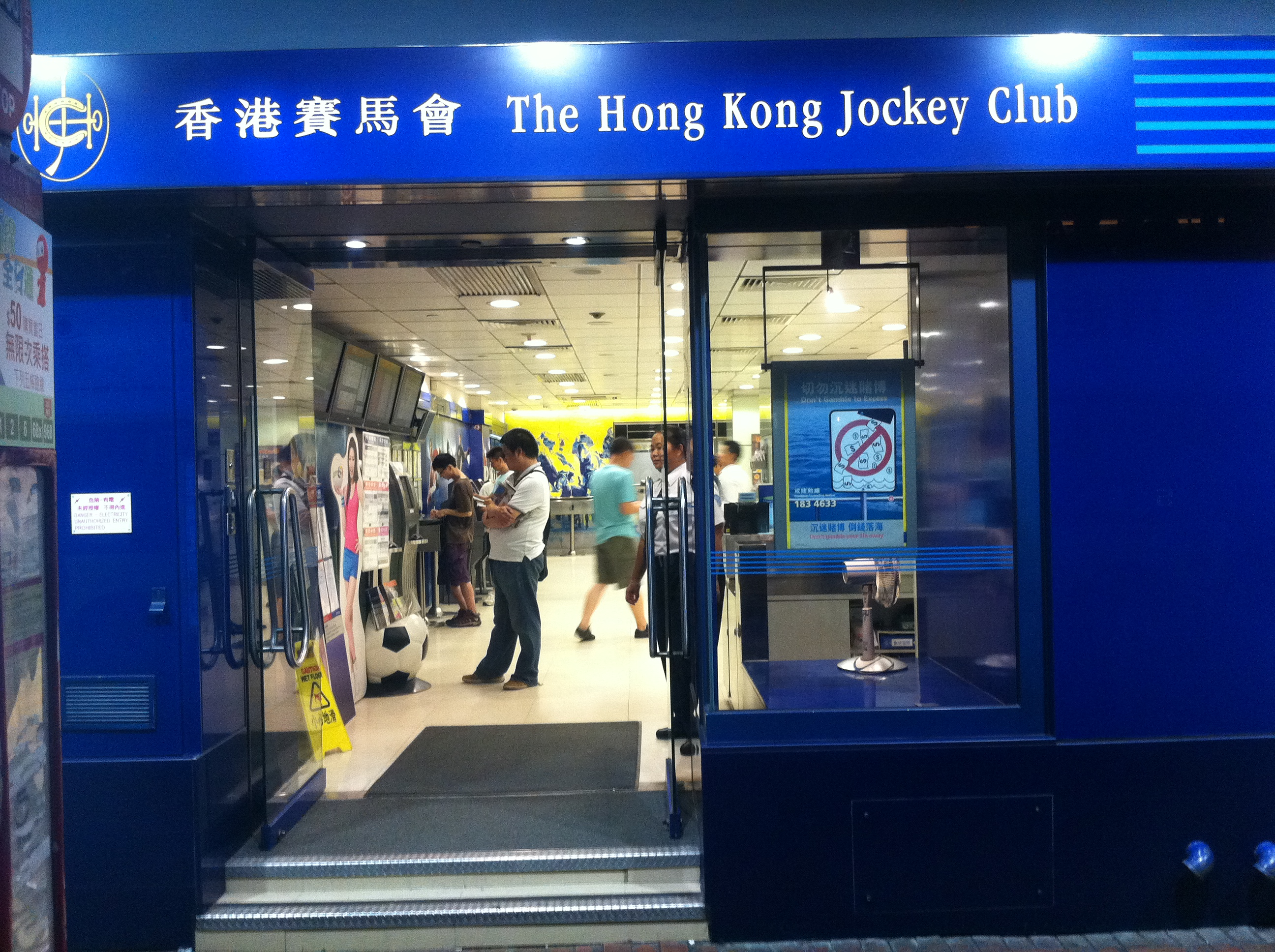 遊車河, CityBus 5 tour view in Hong Kong